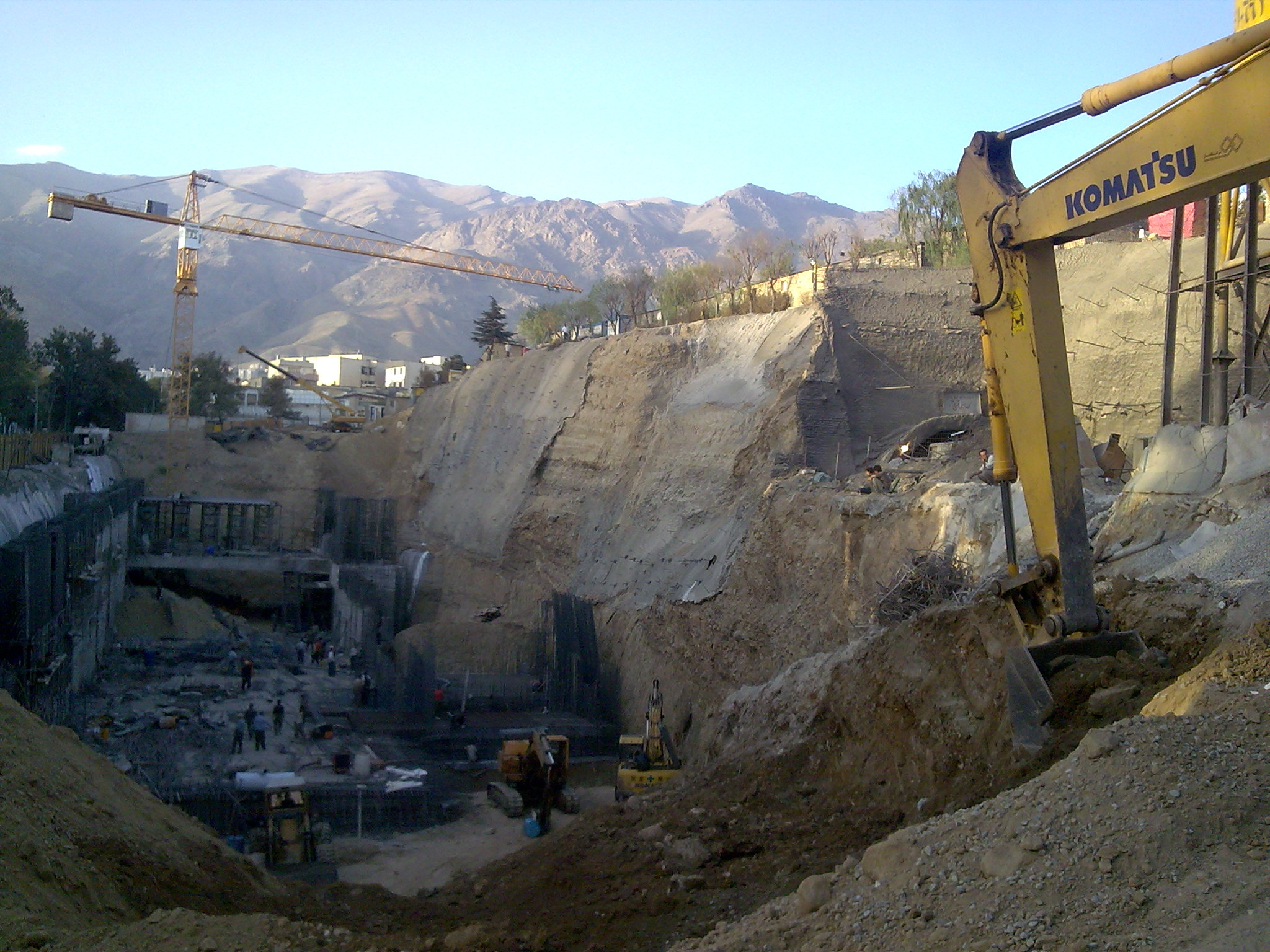 Construction of Tehran Metro, Gheytariyeh station